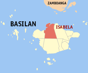 Map of the Basilan showing the location of Isabela City